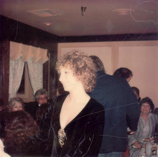 Photo taken at the private party after the premiere of the movie A STAR IS BORN, held at Dillon's Disco, 12/18/76 (photo is poor quality because it's a Polaroid SX-70 photo) - FILMEX. Barbra's mother, Diana Streisand Kind, can be seen seated at lower right. Permission granted to copy, publish or post but please credit "photo by Alan Light" if you can